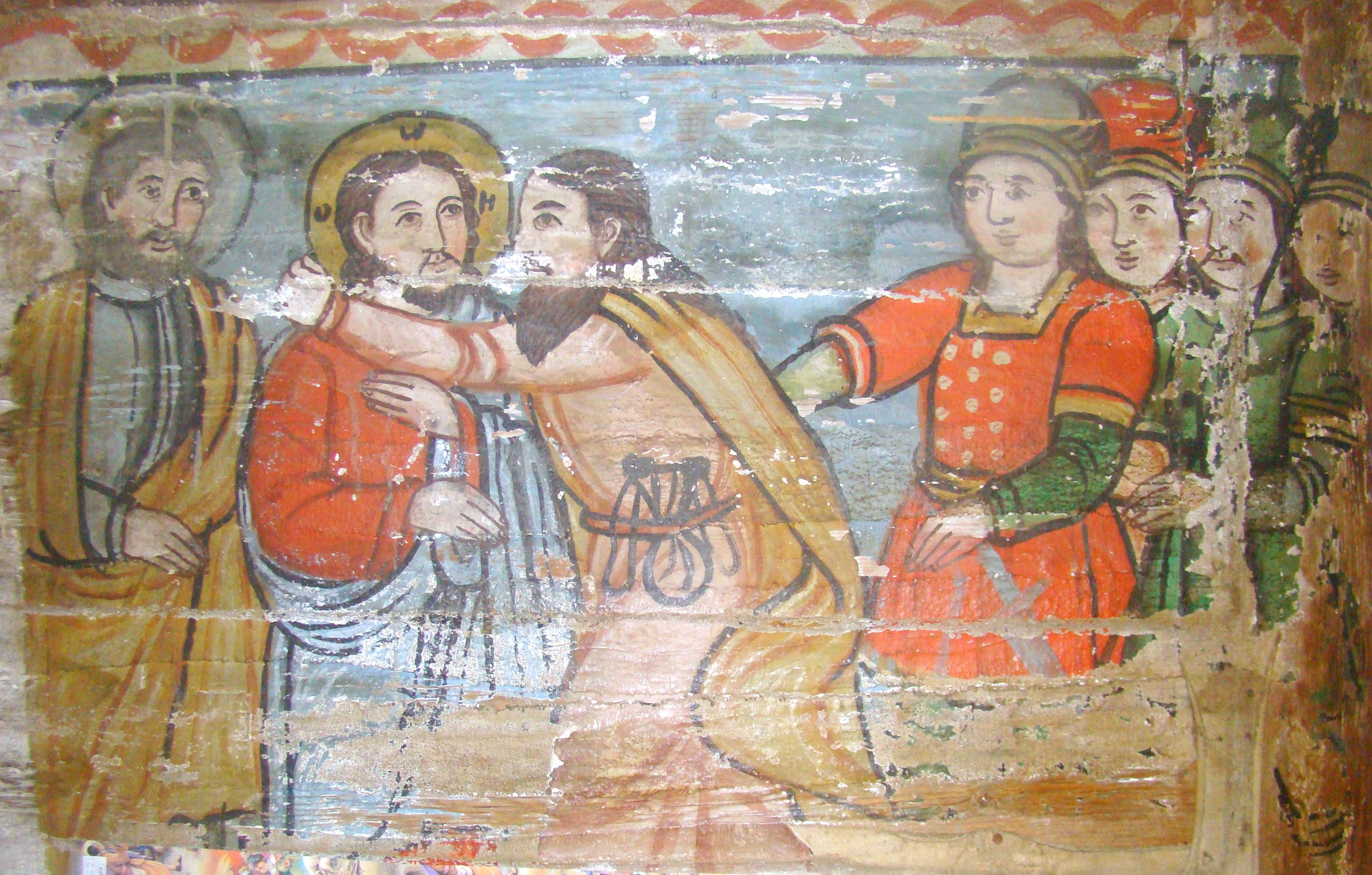 Wooden church in Săcalu de Pădure, Mureș county